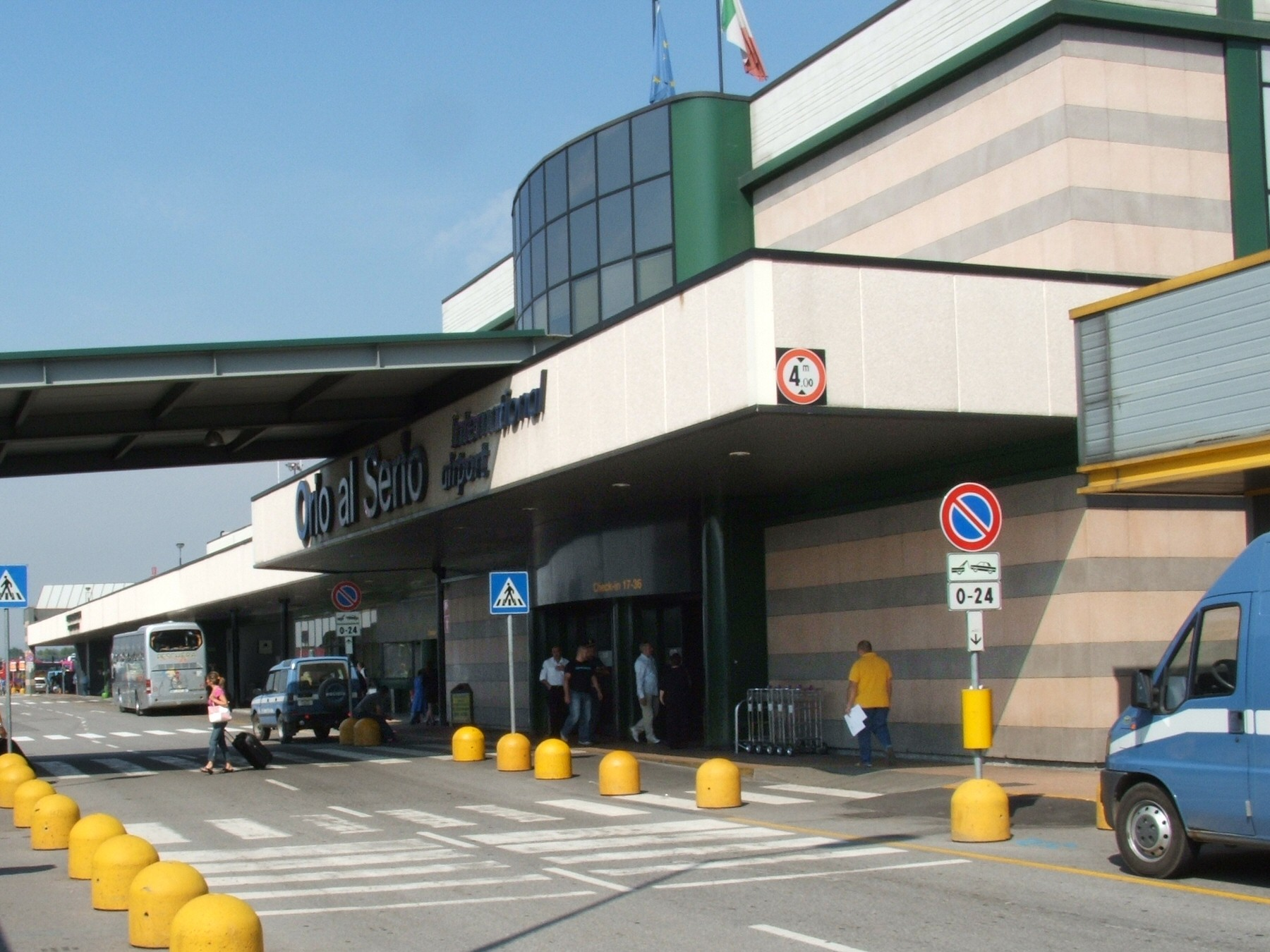 Orio al Serio Airport - Bergamo - Italy